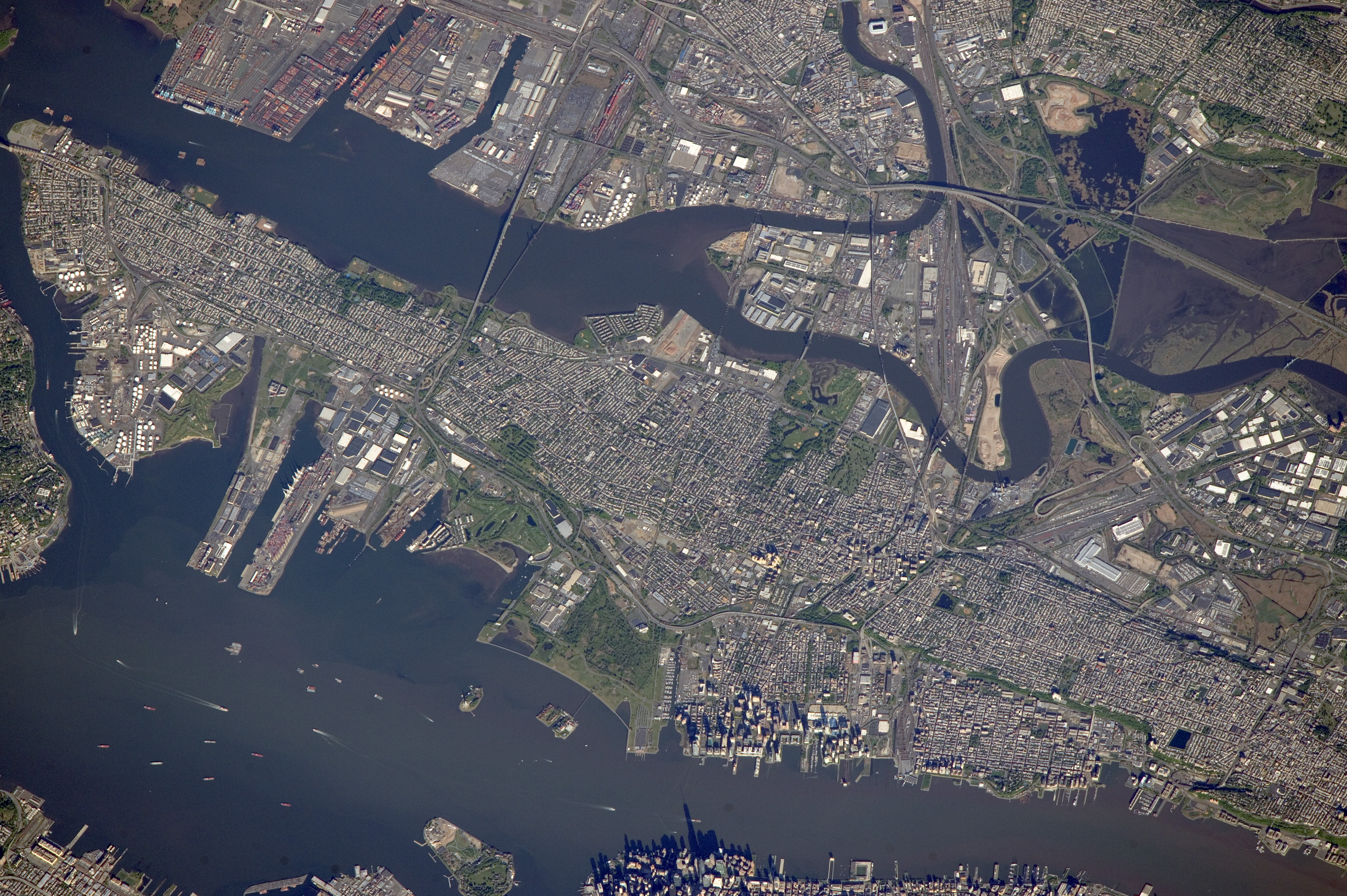 This Earth observation image of the Eastern coast of the United States from May 23, 2015 was tweeted out from the International Space Station by NASA astronaut Scott Kelly with the added comment: "To end #EMSWeek #JerseyCity where I worked as an EMT more than 30 years ago".